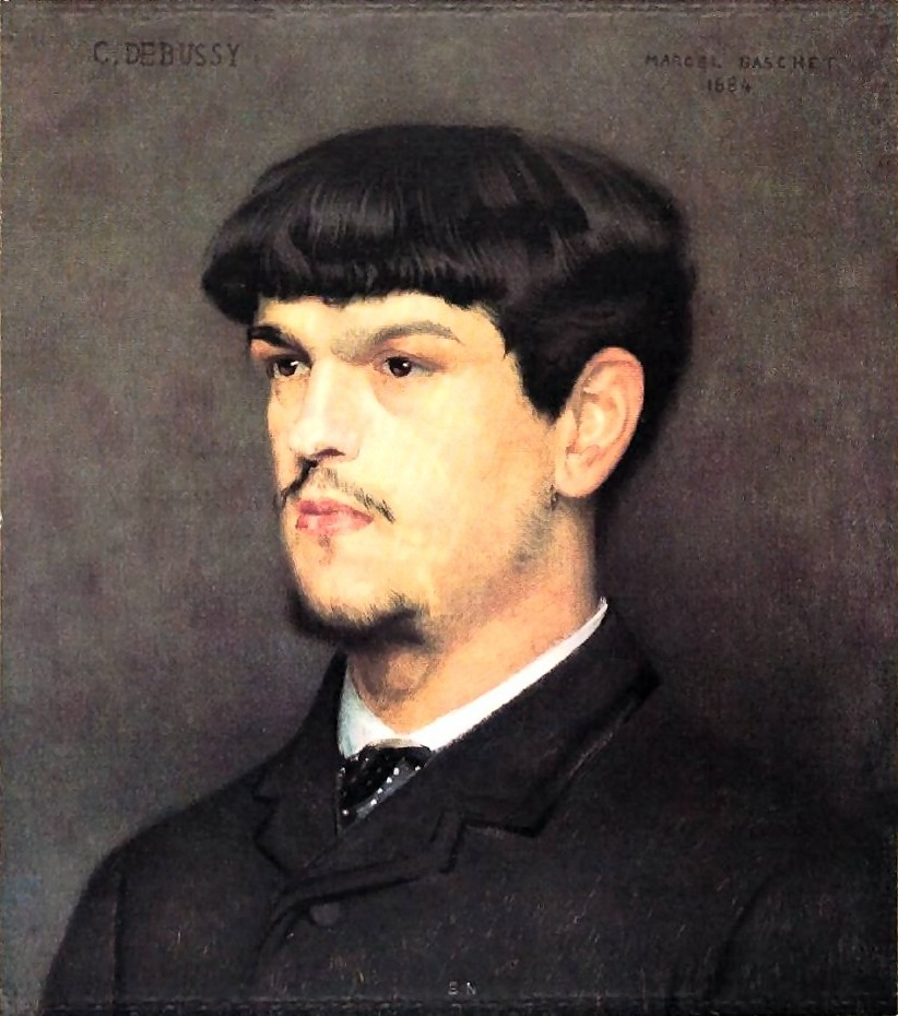 French composer Claude Debussy (1862-1918)